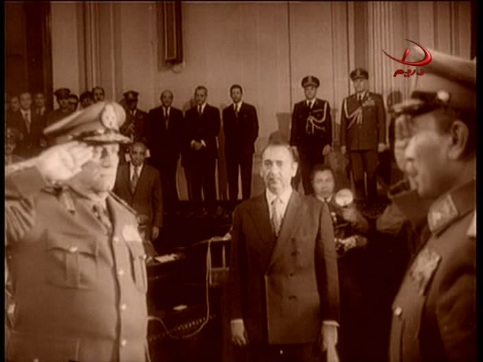 Fd.Marshal Ahmed Ismail with Sadat